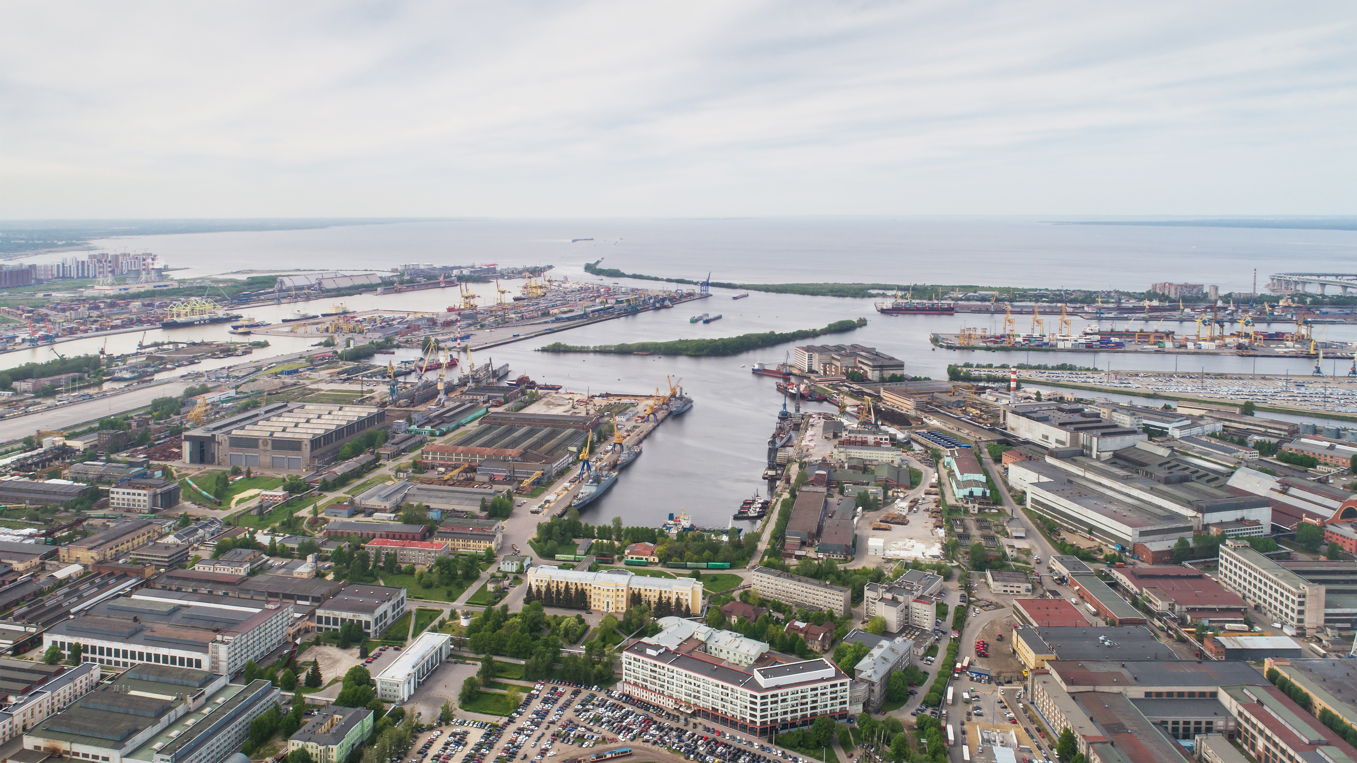 Aerial photo of the Northern Shipyard in Saint Petersburg (Russia).